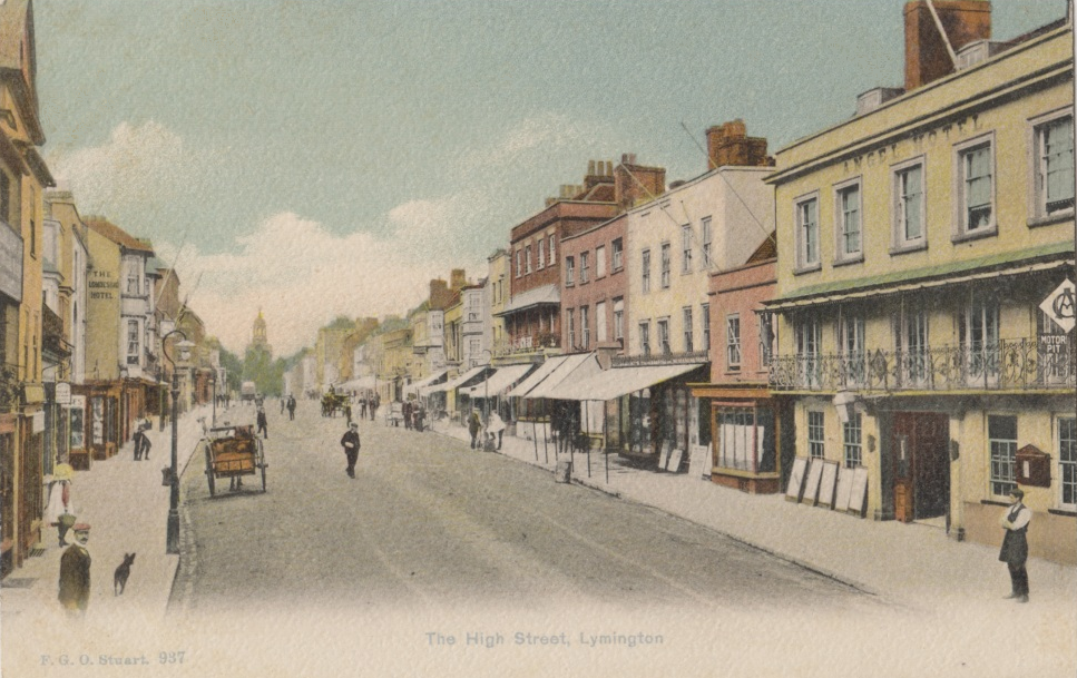 Postcard by F. G. O. Stuart entitled "The High Street, Lymington", numbered 937